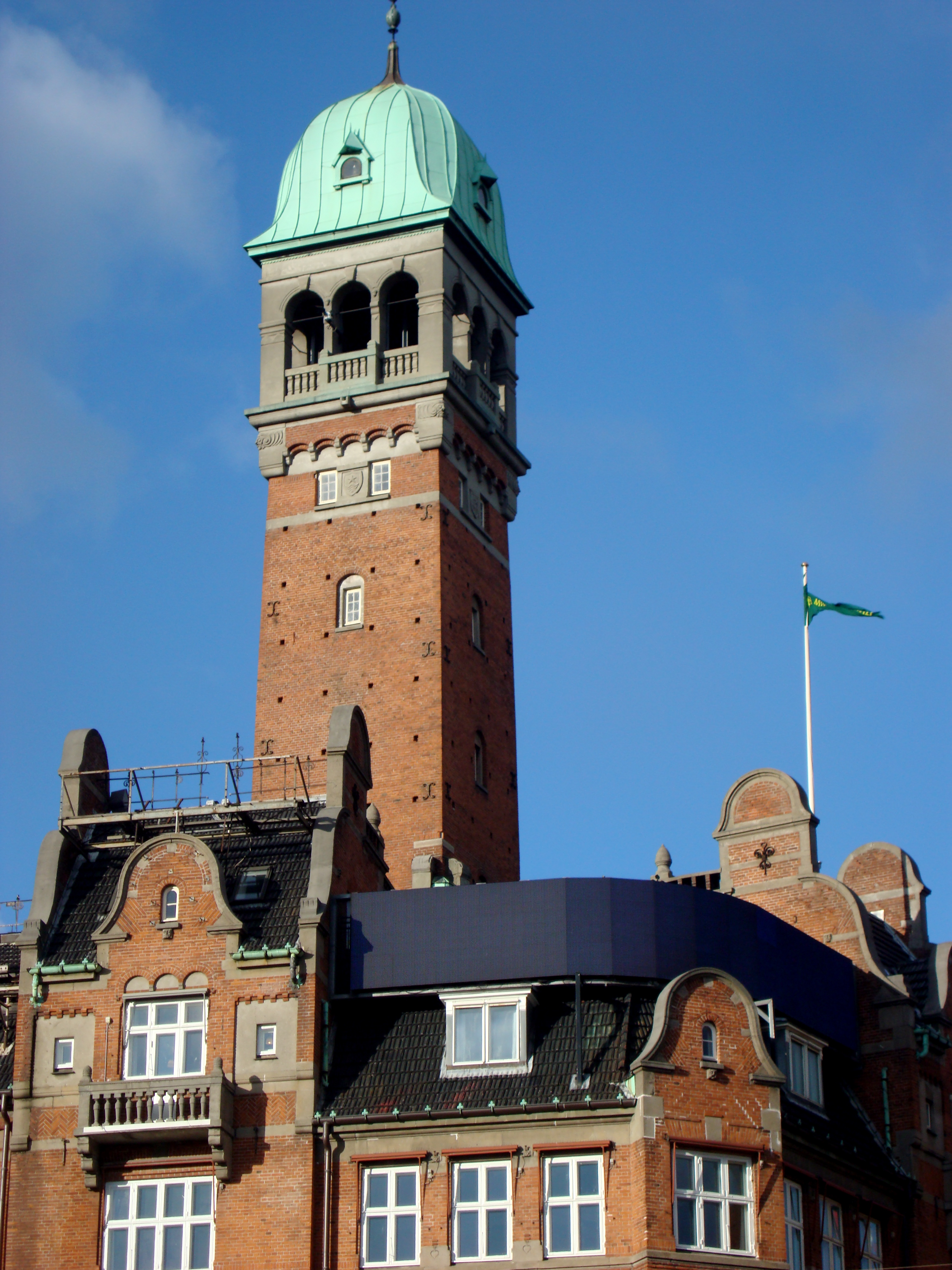 The tower of Hotel Bristol at Rådhuspladsen in Copenhagen, Denmark